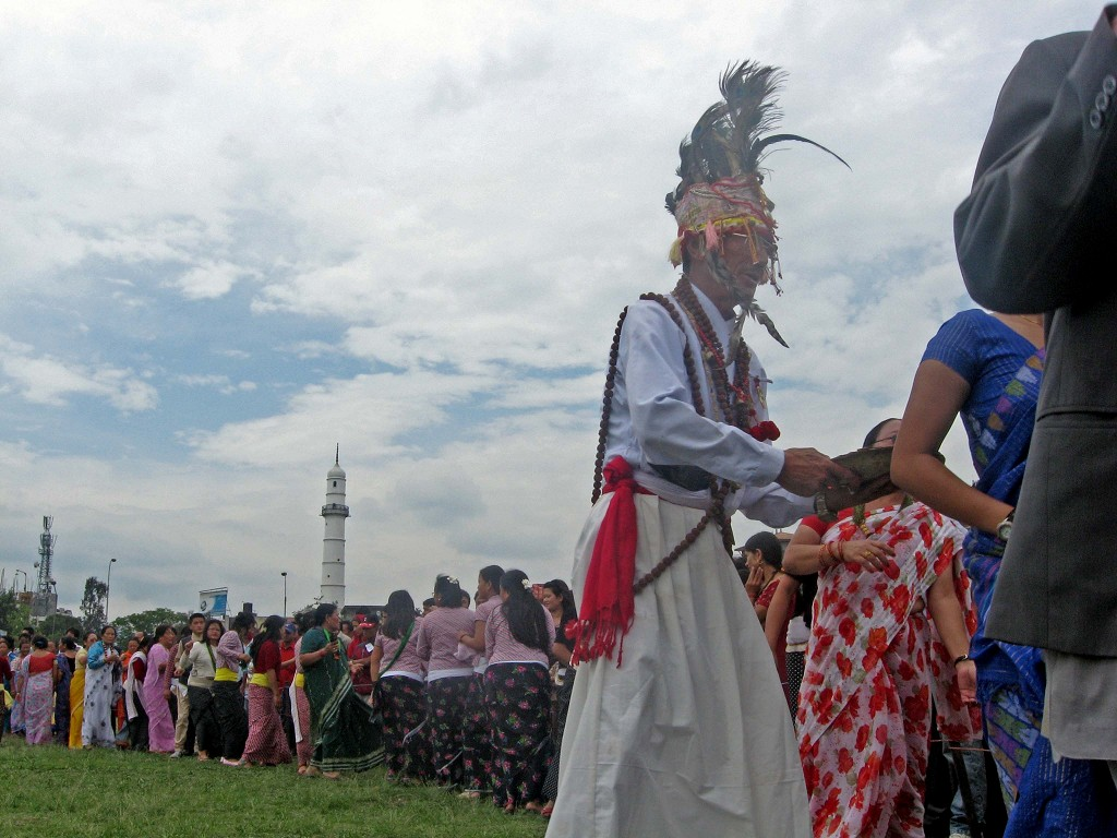 Nakchong, the Kirat priest.